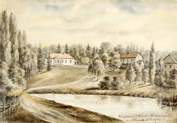 Napoleon Orda. Hryshivtsi